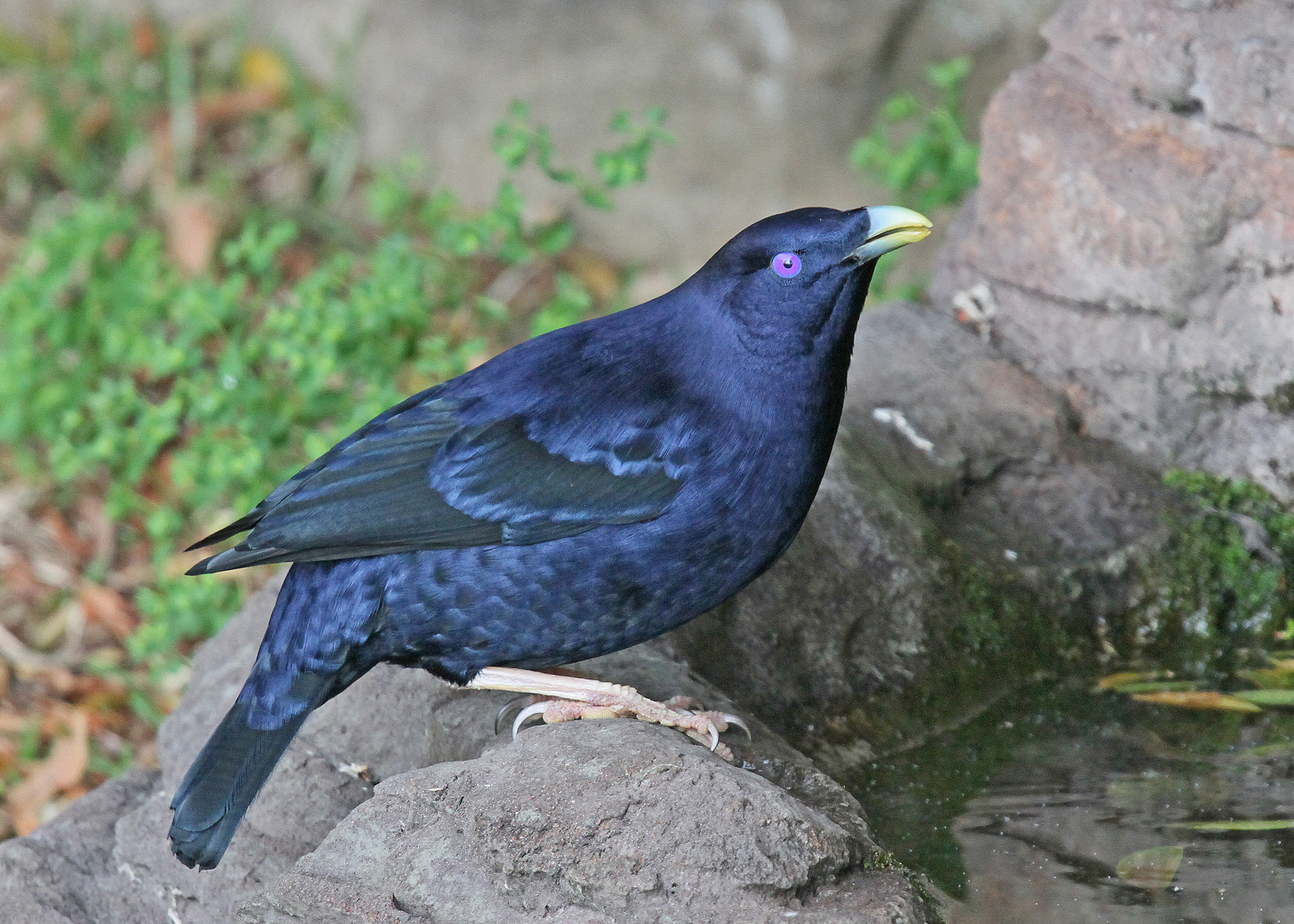 photo of Satin Bowerbird